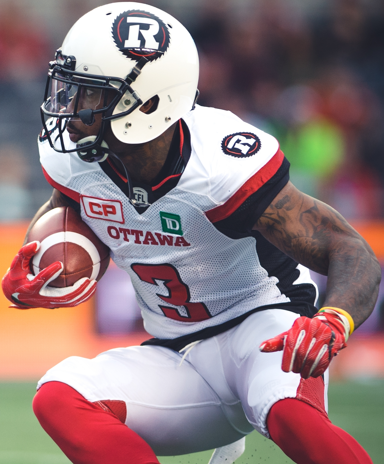 Travon Van (3) of the Ottawa REDBLACKS during the pre-season game against the Winnipeg Blue Bombers at TD Place in Ottawa, ON on Monday June 13, 2016. (Photo: Johany Jutras)